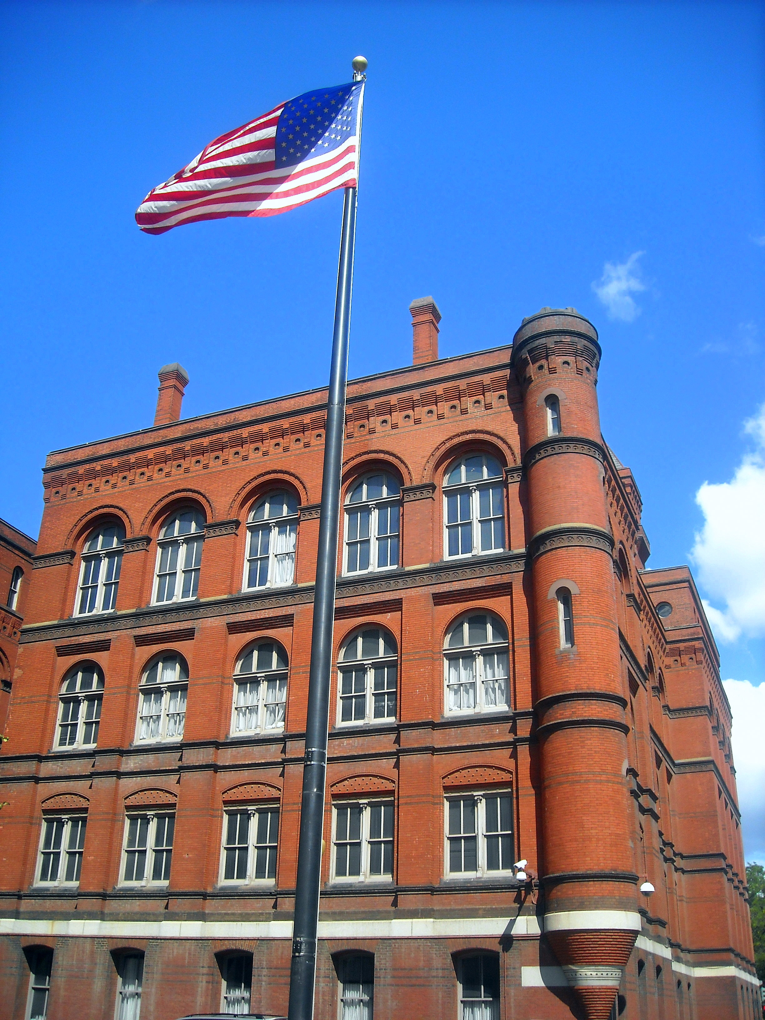 The Sidney R. Yates Federal Building (part of the United States Department of Agriculture headquarters) located at 201 14th Street, S.W., in Washington, D.C. Designed by architect James G. Hill in 1880, it was originally called the Auditor's Main Building and housed the Bureau of Engraving and Printing. The Yates Building is one of the few remaining examples of federal Romanesque Revival architecture in Washington, D.C. It was placed on the National Register of Historic Places in 1978.